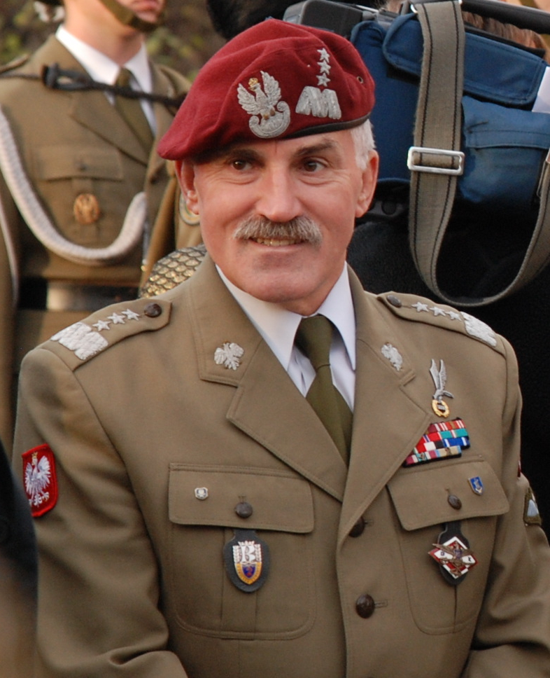 Mieczysław Bieniek, during inauguration of Józef Piłsudski monument in Kraków